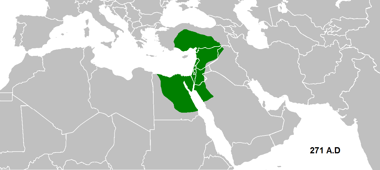 Palmyra in 271 A.D. imposed over modern borders. At its height, Palmyra annexed the Roman provinces in the east : Egypt, Syria, Phoenice,Syria Palaestina, Arabia, Mesopotamia and the Anatolian regions up to Ankara and including Galatia.Warwick Ball, Rome in the East: The Transformation of an Empire Alaric Watson, Aurelian and the Third Century Spencer C. Tucker, 500 Great Military Leaders